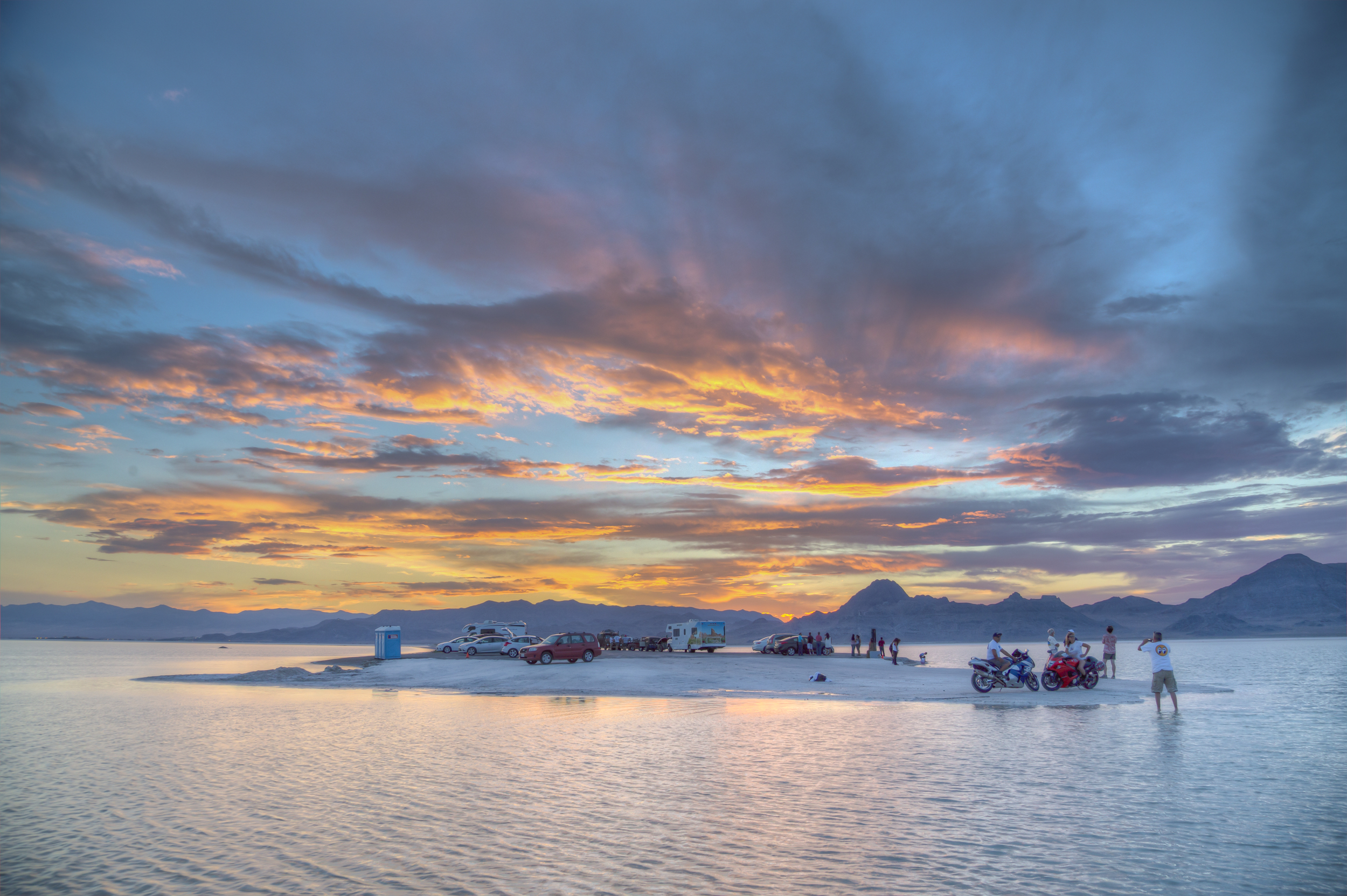 Managed by the BLM as an Area of Critical Environmental Concern and Special Recreation Management Area, the Bonneville Salt Flats are a 30,000 acre expanse of hard, white salt crust on the western edge of the Great Salt Lake basin in Utah. “Bonneville” is also on the National Register of Historic Landmarks because of its contribution to land speed racing. The salt flats are about 12 miles long and 5 miles wide with total area coverage of just over 46 square miles. Near the center of the salt, the crust is almost 5 feet thick in places, with the depth tapering off to less than 1 inch as you get to the edges. Total salt crust volume has been estimated at 147 million tons or 99 million cubic yards of salt! The remote and rugged Bonneville Salt Flats serve as a fitting backdrop forIndependence Day, Pirates of the Caribbean: At World’s End, Con Air, The World’s Fastest Indian, Mulholland Falls, and many more films. The BLM’s Bonneville Salt Flats also attracts amateur racers from all over the world for the annual SPEED WEEK, with timed speed events on 3 to 5 mile straightaway tracks. Learn more about the history of this unique location: Photo by Bob Wick, BLM